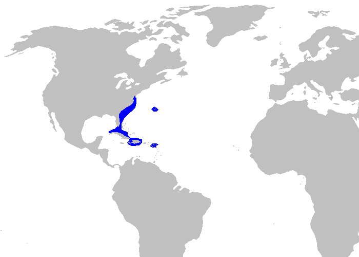 Distribution map for Etmopterus hillianus